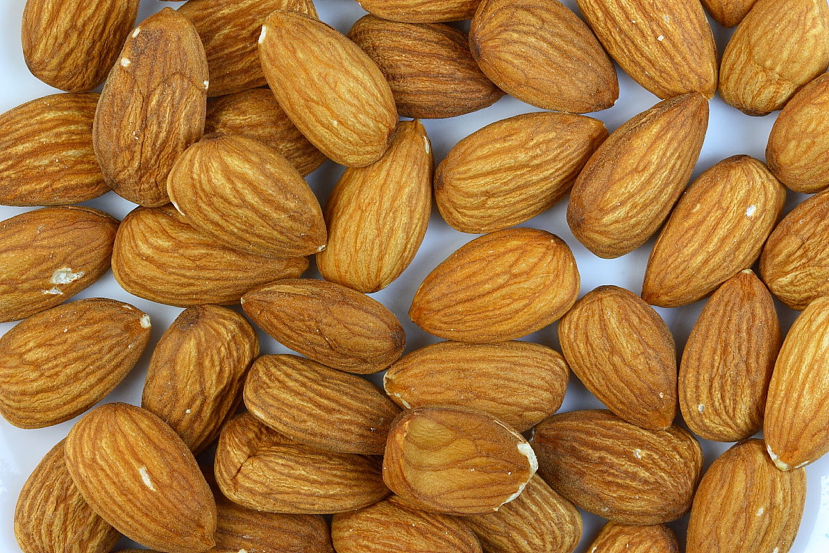 Raw Almonds